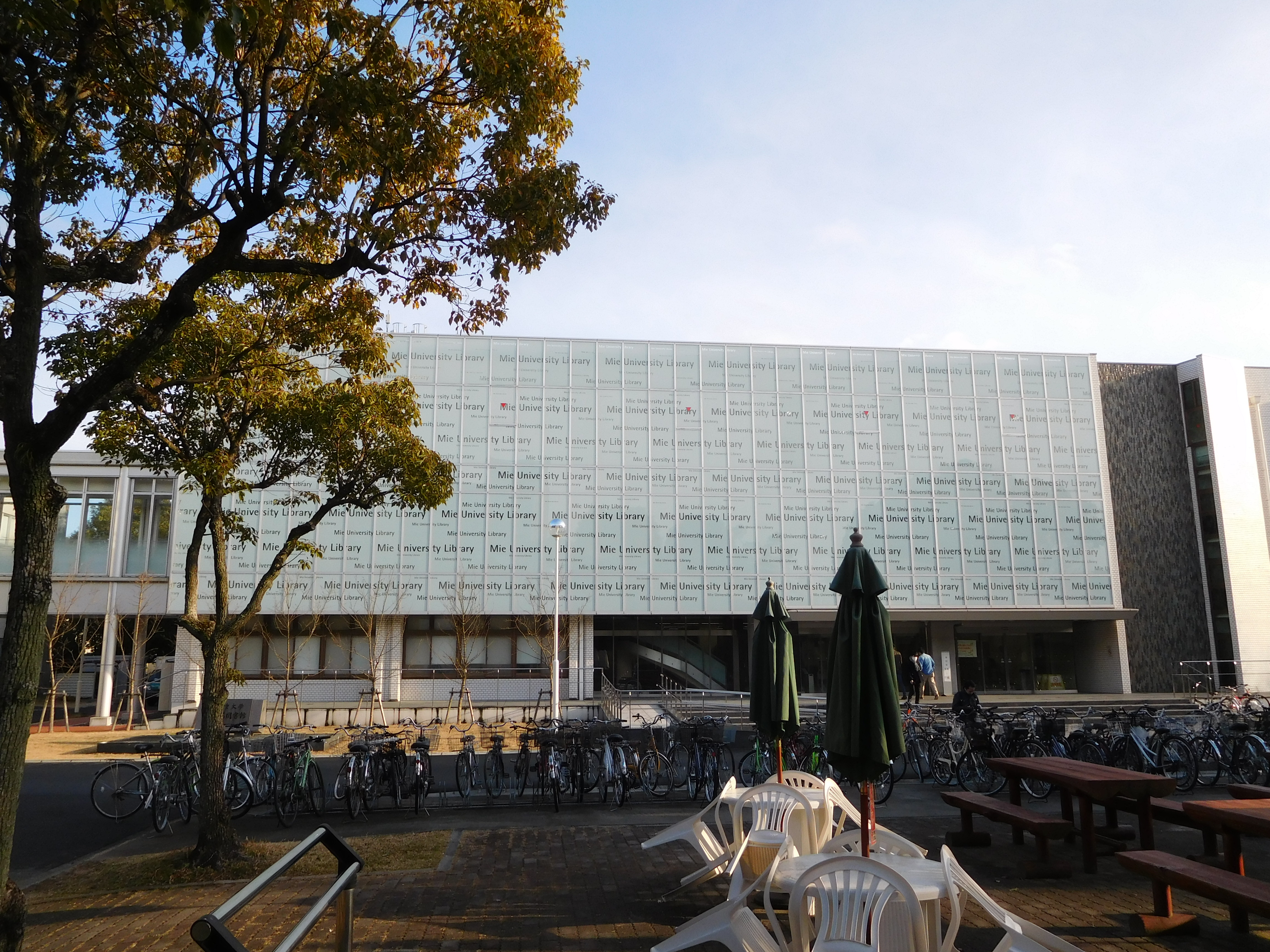 This is Mie Univ. Library.